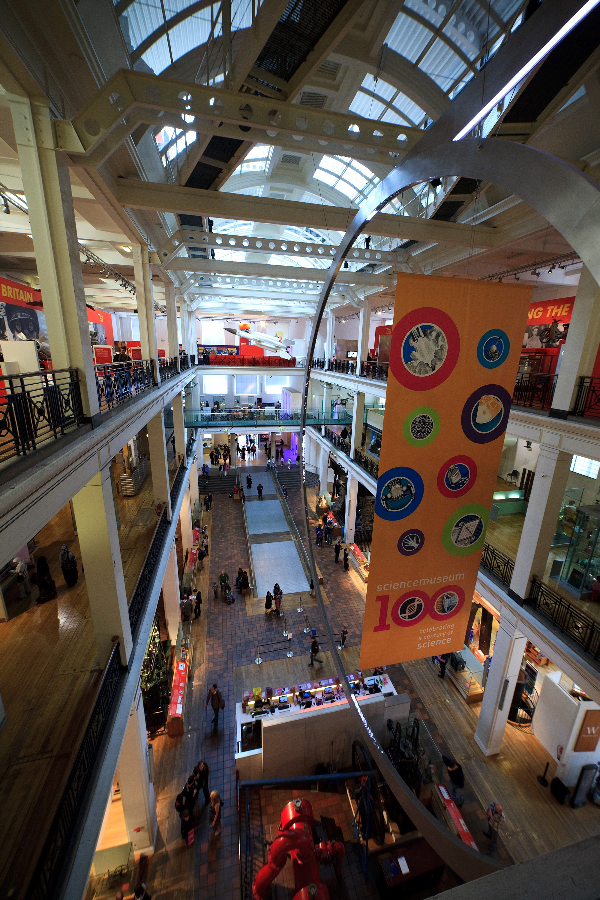 The East Hall of the Science Museum, London, 15 May 2010.